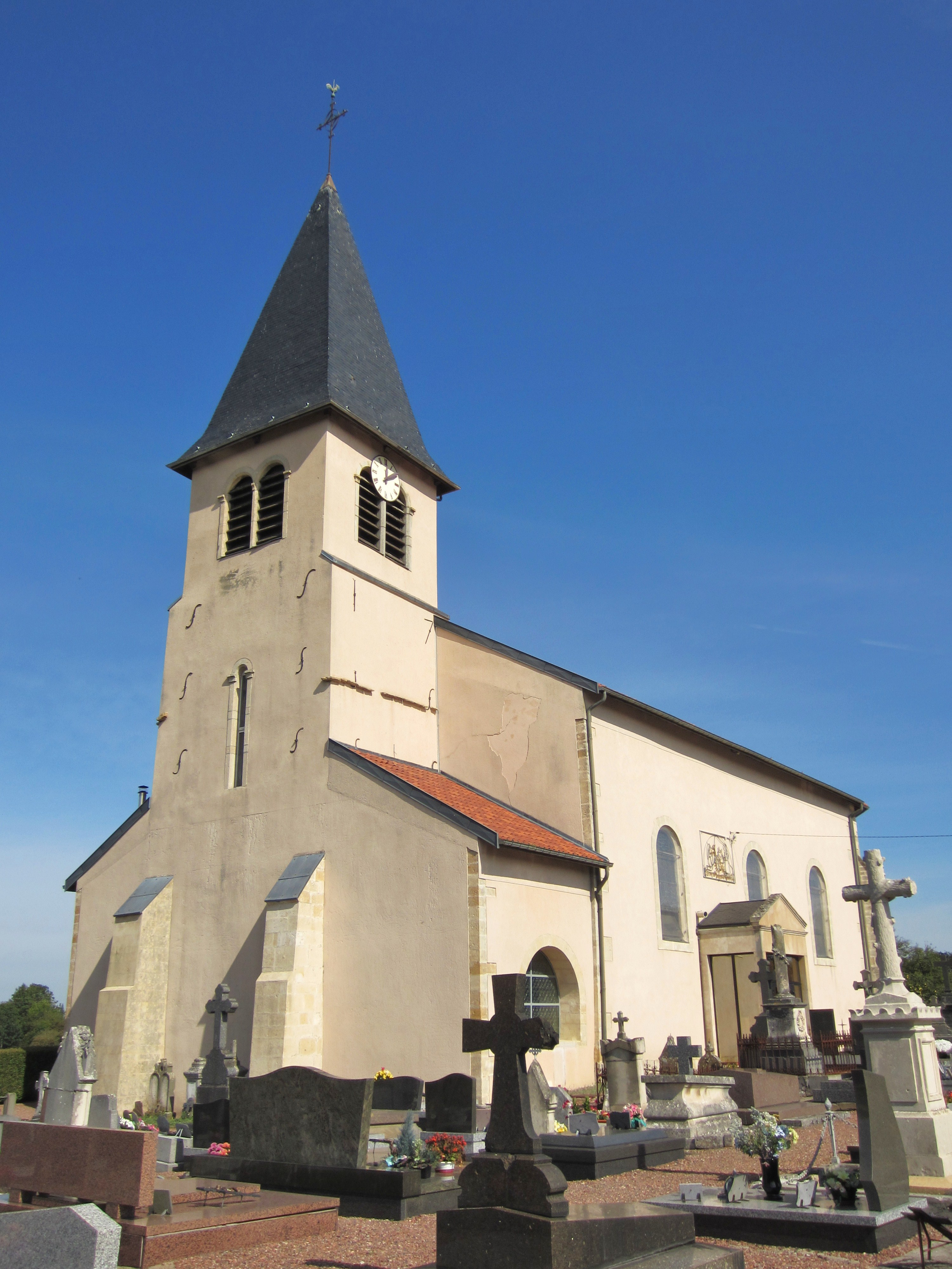 Description eglise Villers Montagne Date16 September 2011Sourcemon appareil photoAuthorAimelaimePermission(Reusing this file) eglise Villers Montagne